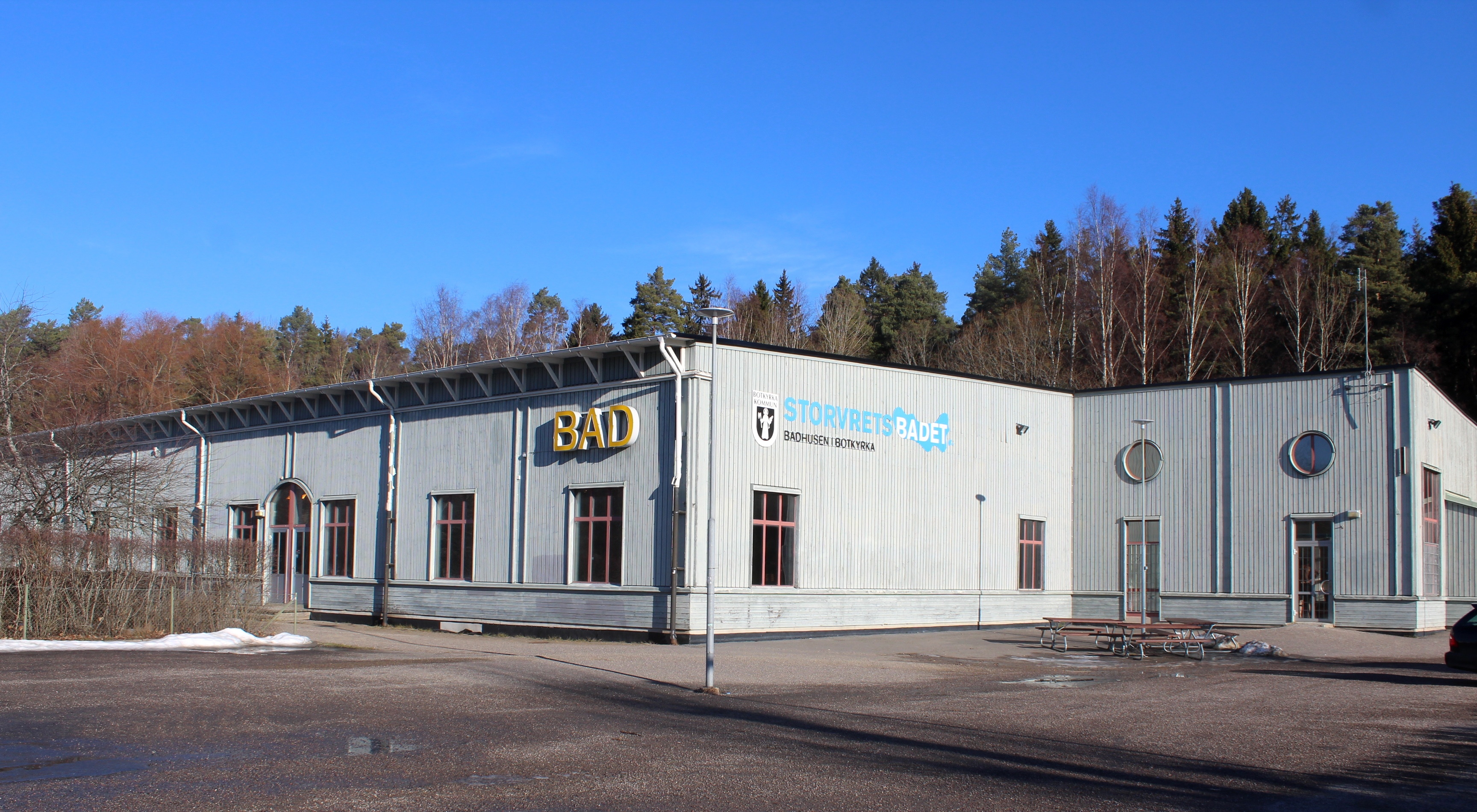 Storvretsbadet, bath in Tumba, Sweden